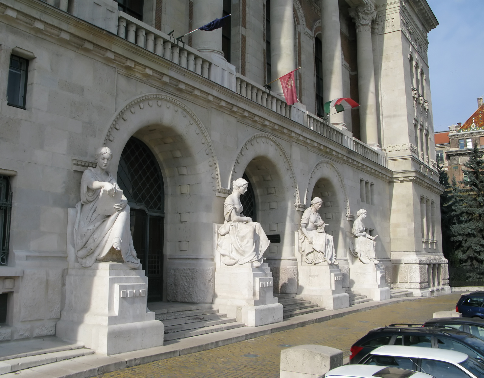 Resculpted allegoric statues by the main building of Budapest University of Technology and Economics in Hungary